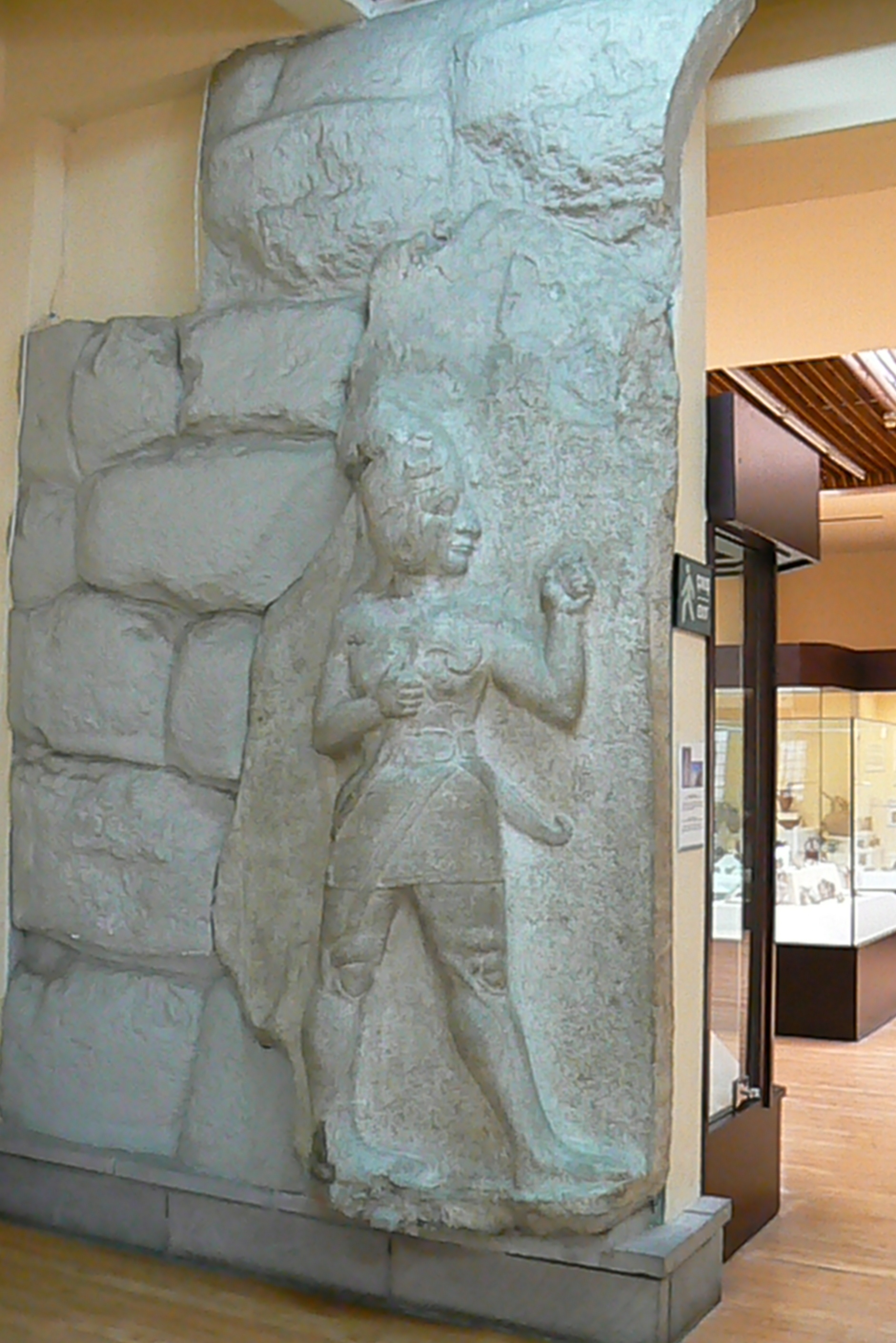 Original relief from the King's Gate, Hattusa. Now in the Museum of Anatolian Civilizations